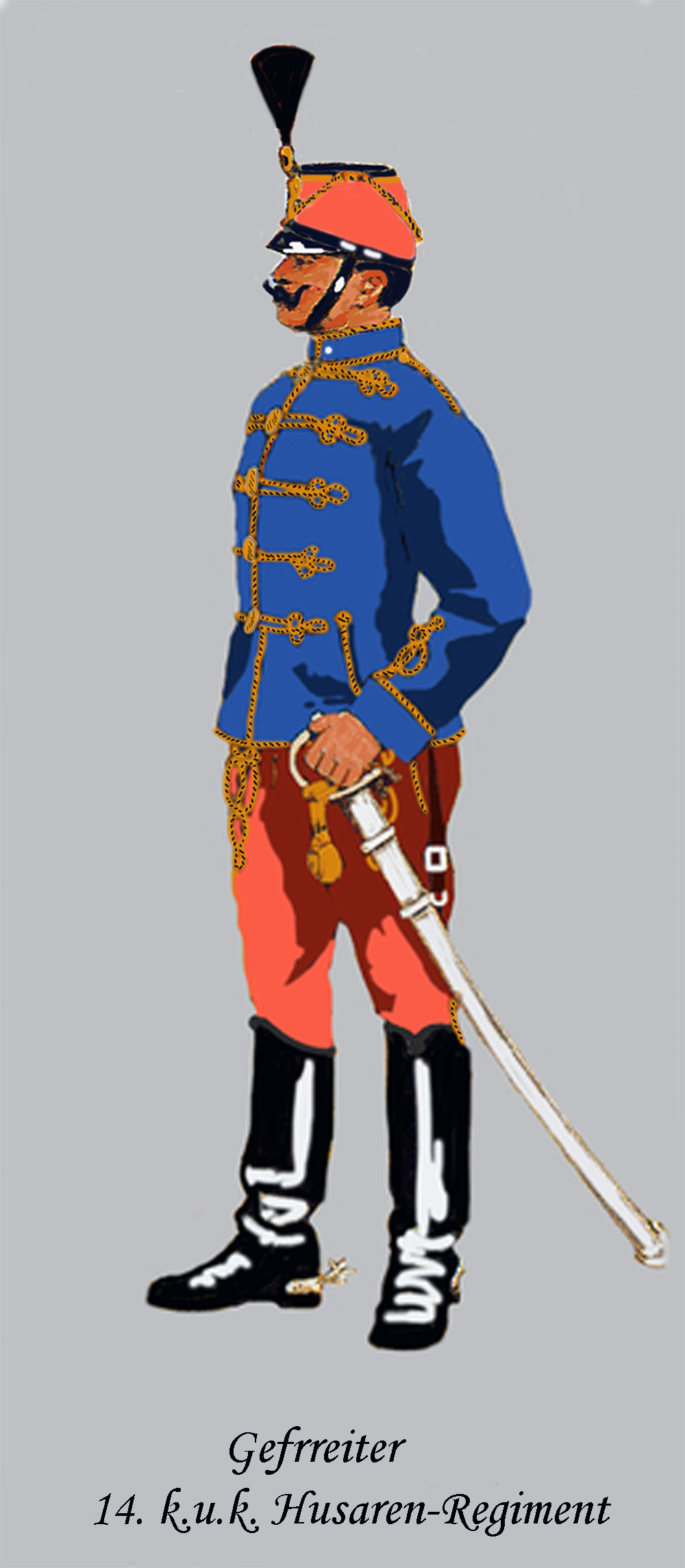 Private 1st class of the 2nd Austria-Hungarian Hussards-Regiment. Uniform in use until about 1916